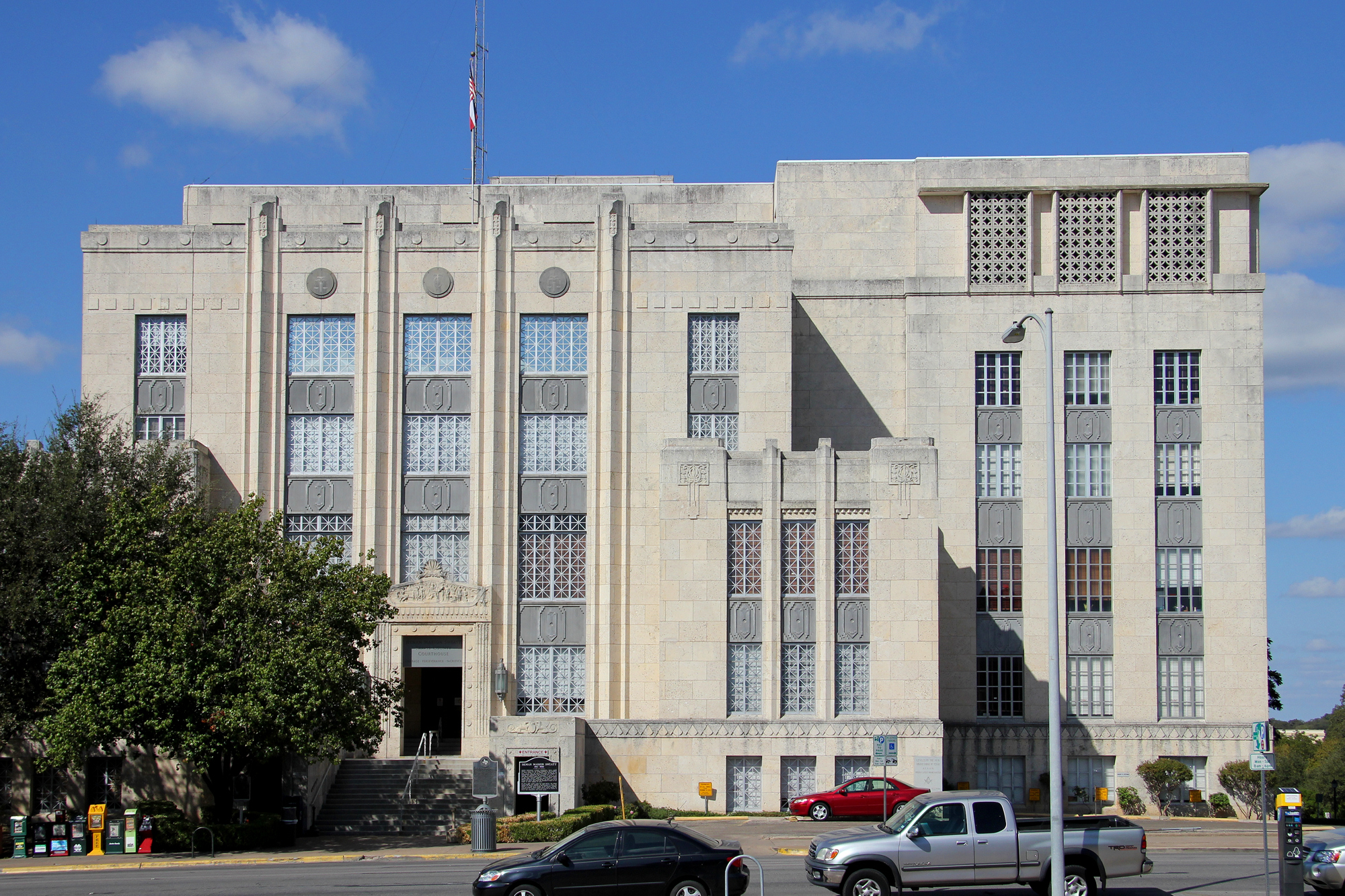 The Travis County Courthouse located in Austin, Texas, United States.